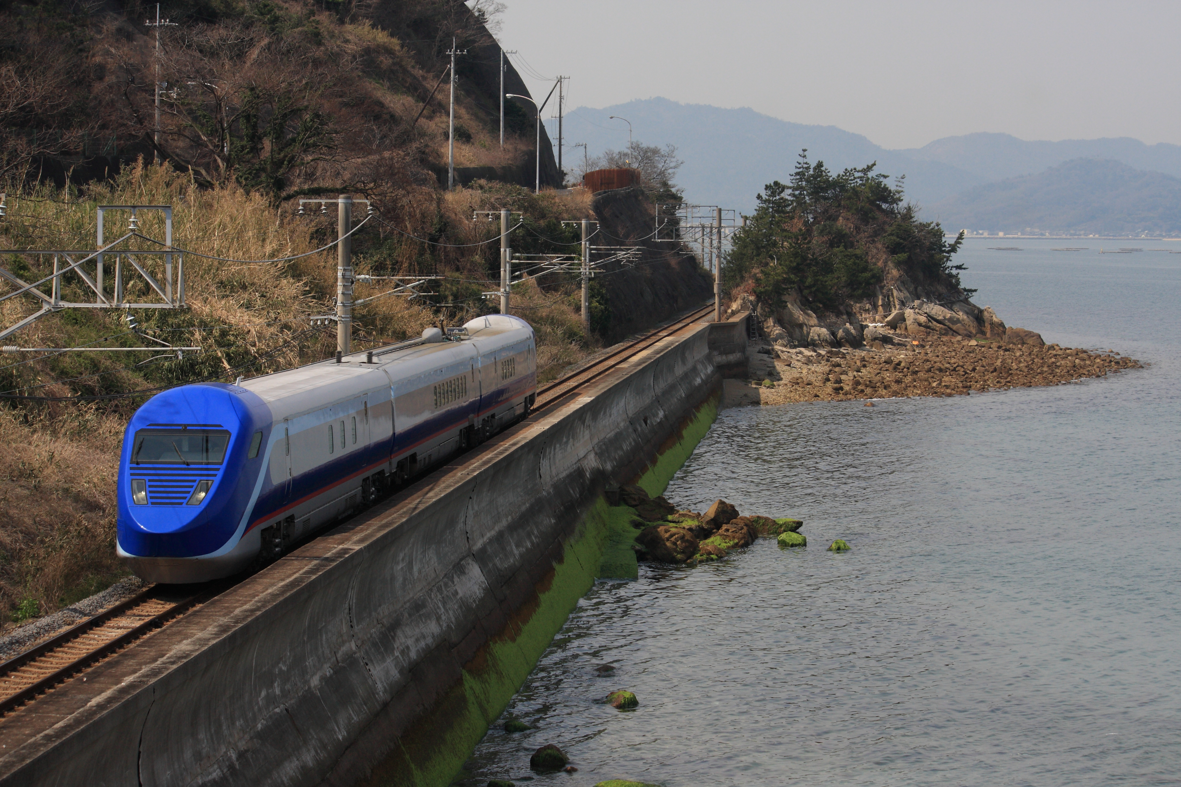 The second-generation "Gauge Change Train" on test on the Yosan Line in Shikoku, Japan